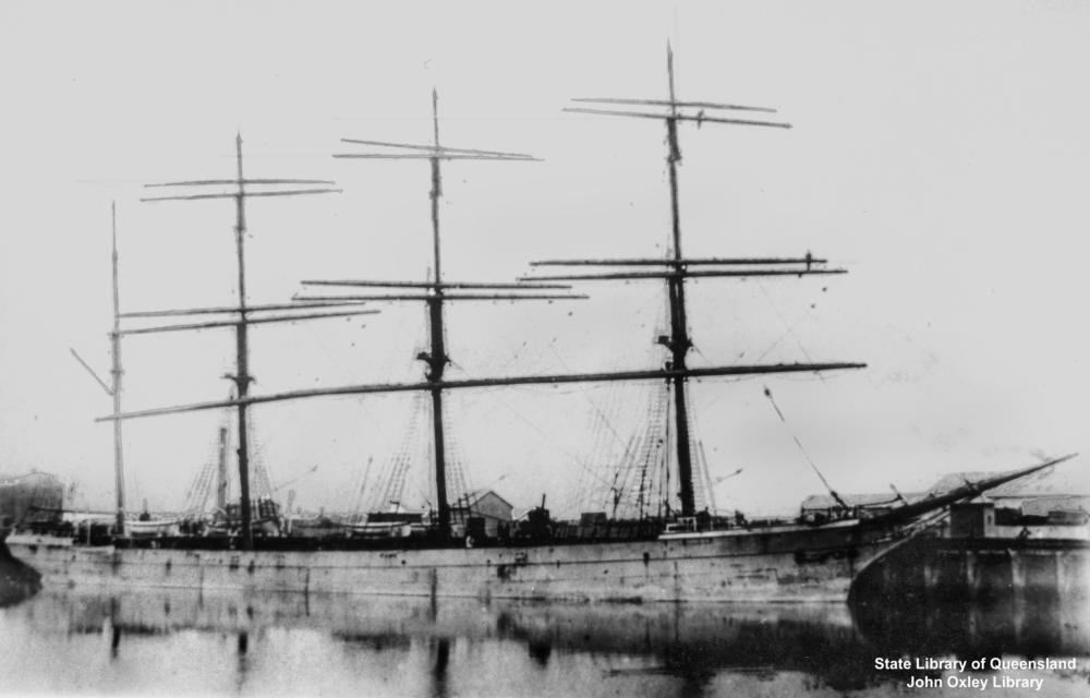 Bannockburn (ship)